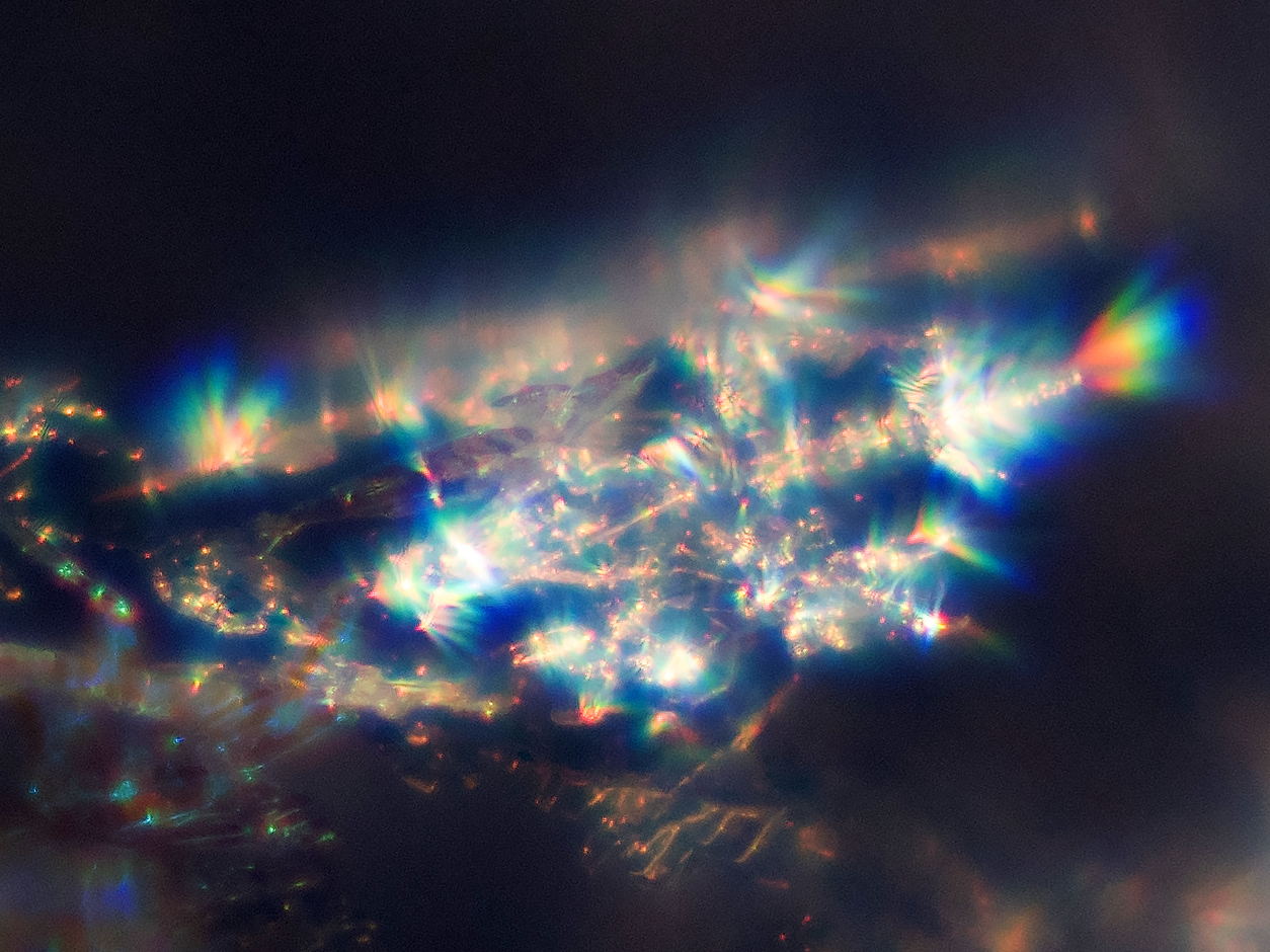 Newly fallen snow crystals glittering in strong direct sunlight on a window sill in Gåseberg, Lysekil Municipality, Sweden. The clear, transparent ice crystals act like little prisms and refract the sunlight into small rainbows. On a day with perhaps the heaviest snowfall this winter (2017/2018), there was high humidity and a temperature of −8 °C (18 °F); this caused the formation of big spectacular crystals of about 3-4 mm in diameter. The weather was changing constantly, with patches of blue sky alternating with clouds and snowfall. That made it possible to photograph good quality crystals in strong sunlight. The camera zoomed in on the most “glittery” flakes, yielding strong reflected glints in the snow which you can see with the naked eye. Due to wind and flakes falling on the window sill, focus stacking was not really an option and only a few of the shots were eventually stacked. Three external Hoya macro lenses were used, x1, x2, x4, all simultaneously for maximum effect. The camera had to be hand-held to track the glints; that was acceptable, given the amount of light on the crystal and the resulting time of exposure.